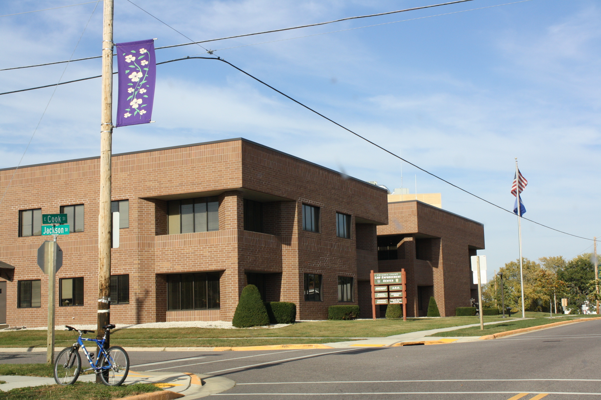 The law enforcement center for Columbia County, Wisconsin along Wisconsin Route 33.